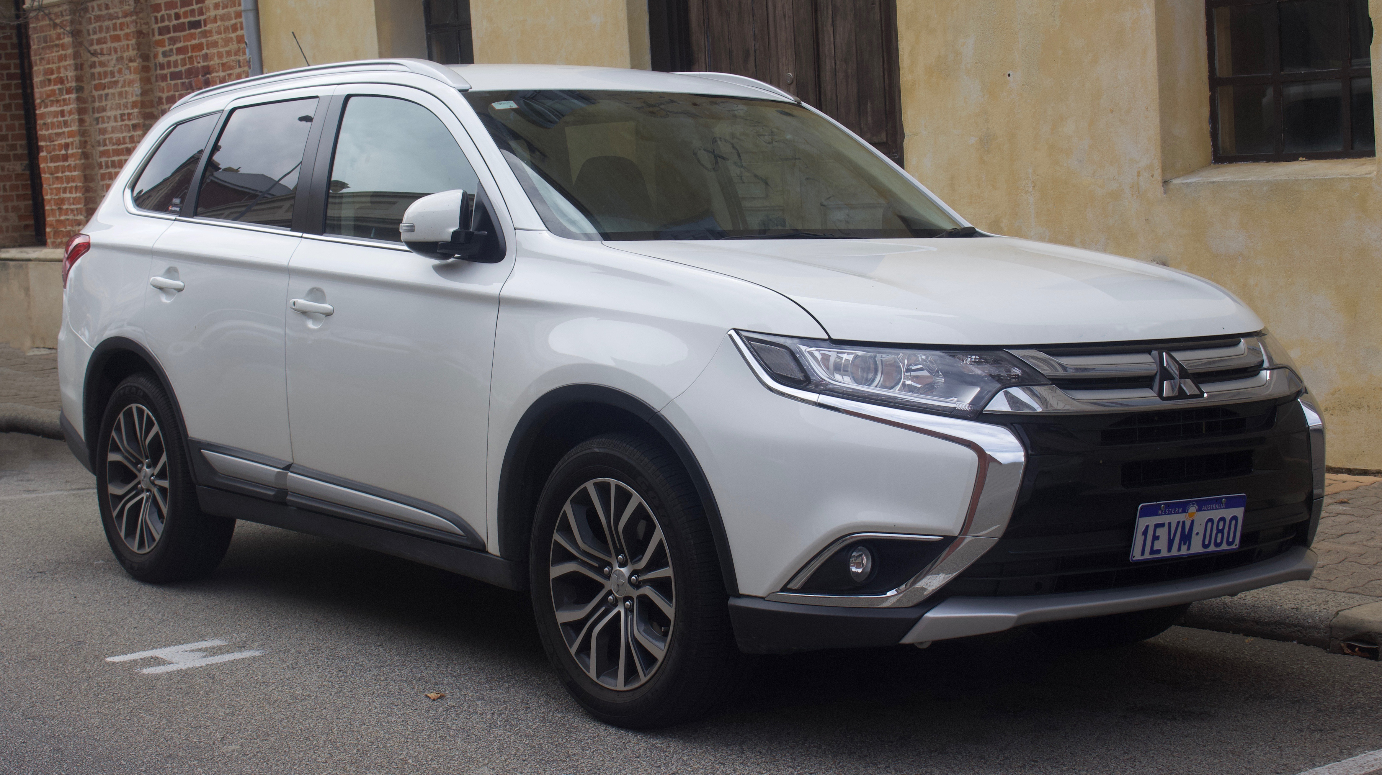 2015 Mitsubishi Outlander (ZK MY16) LS wagon. Photographed in Fremantle, Western Australia, Australia.